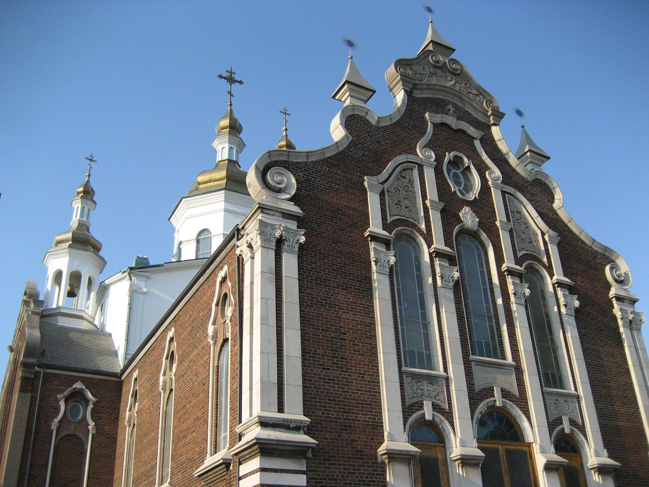 Ukrainian Orthodox Cathedral of St. Vladimir, corner of Gage Avenue North and Barton Street East, Hamilton